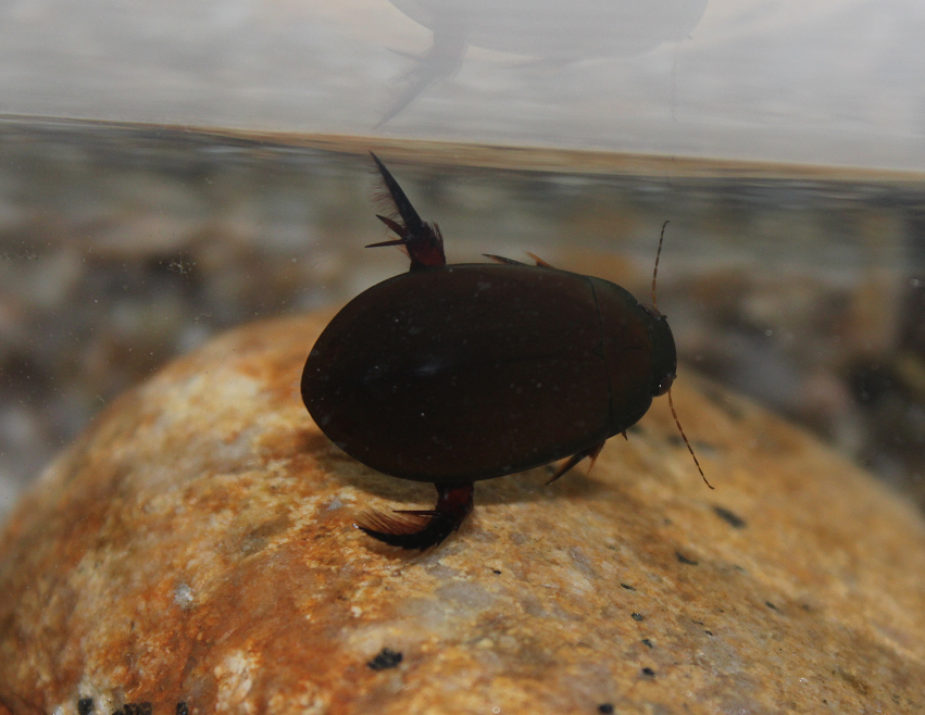 검정물방개